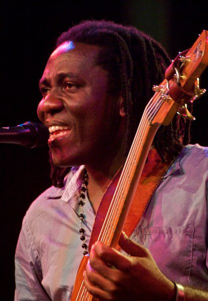 Richard Bona at Malta Jazz Festival 2010- Eric Santucci Photo